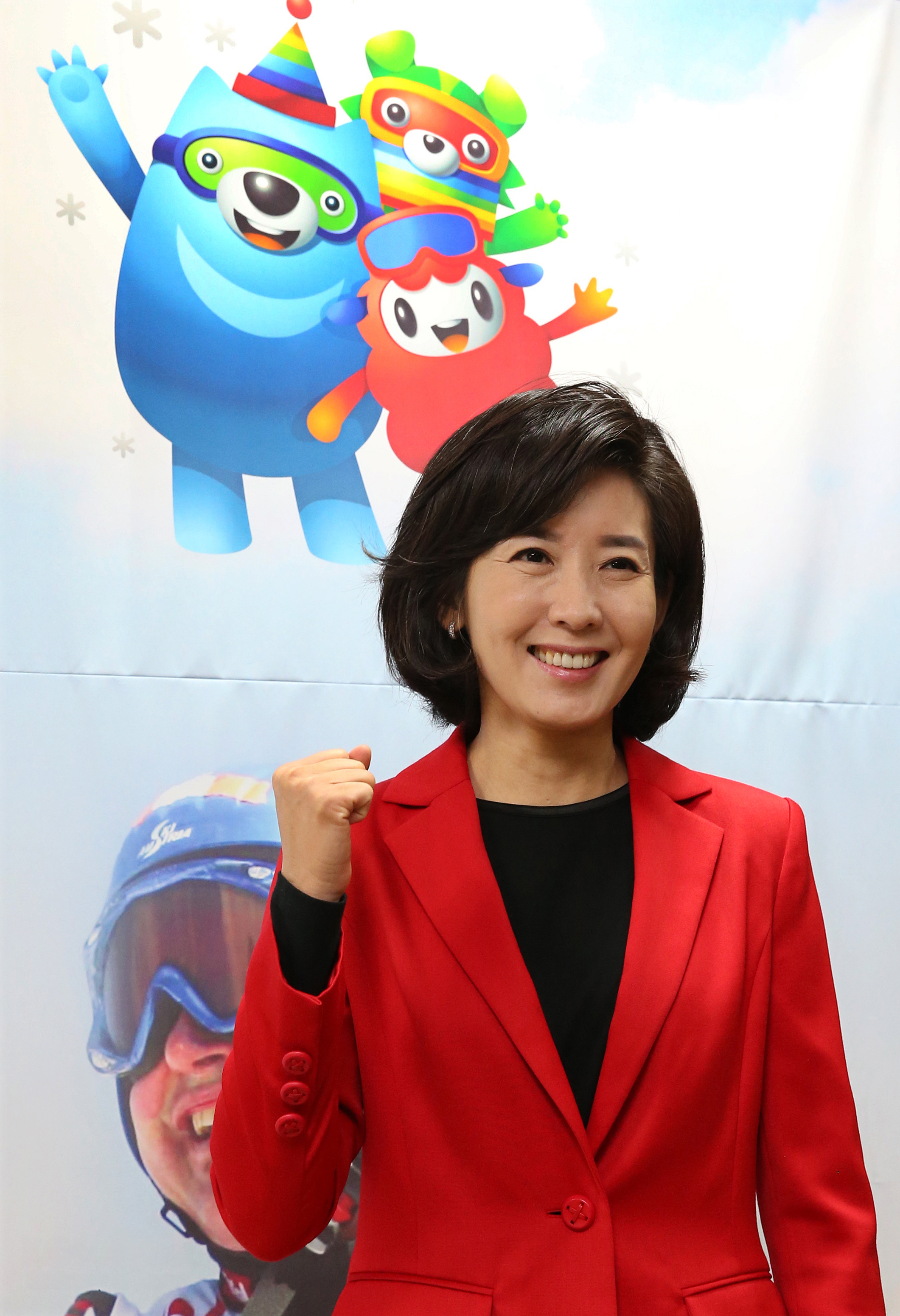 Na Kyung Won, Chairwoman of The Special Olympics World Winter Games Organizing Committee PyeongChang 2013 National Museum of Korean Contemporary History, Gwanghwamun, Seoul 2013.01.04. Ministry of Culture, Sports and Tourism Korean Culture and Information Service Jeon Han 2013 평창동계스페셜올림픽 세계대회 홍보대사 위촉식 나경원 2013 평창 동계 스페셜올림픽 세계대회 조직위원회 워원장 대한민국역사박물관, 광화문 문화체육관광부 해외문화홍보원 코리아넷 전한